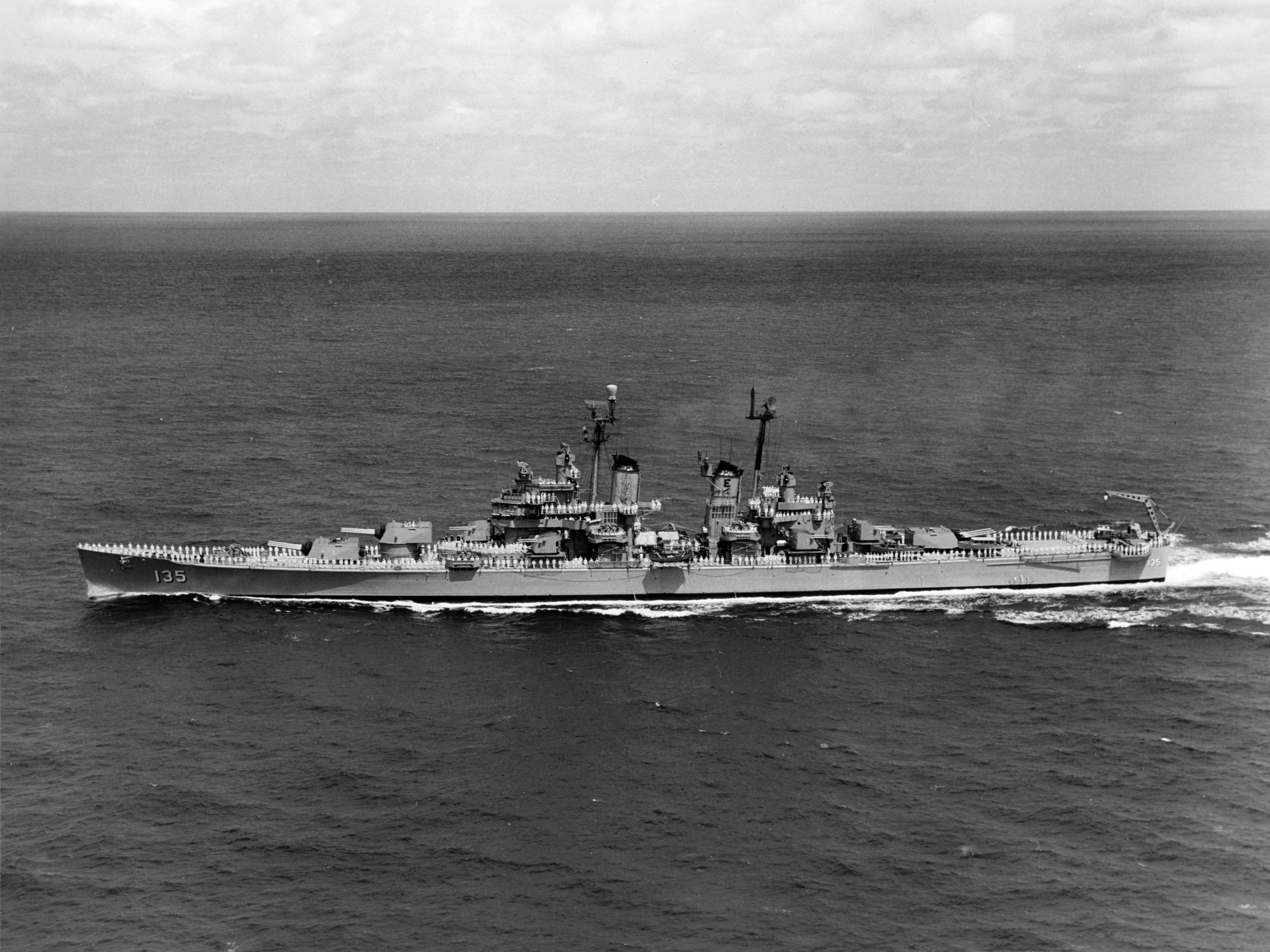 The U.S. Navy heavy cruiser USS Los Angeles (CA-135) underway on 27 April 1959. Original caption: "Officers and men of U.S.S. Los Angeles honor U.S. dead at Midway." The photo was presumably taken off the Midway Islands.